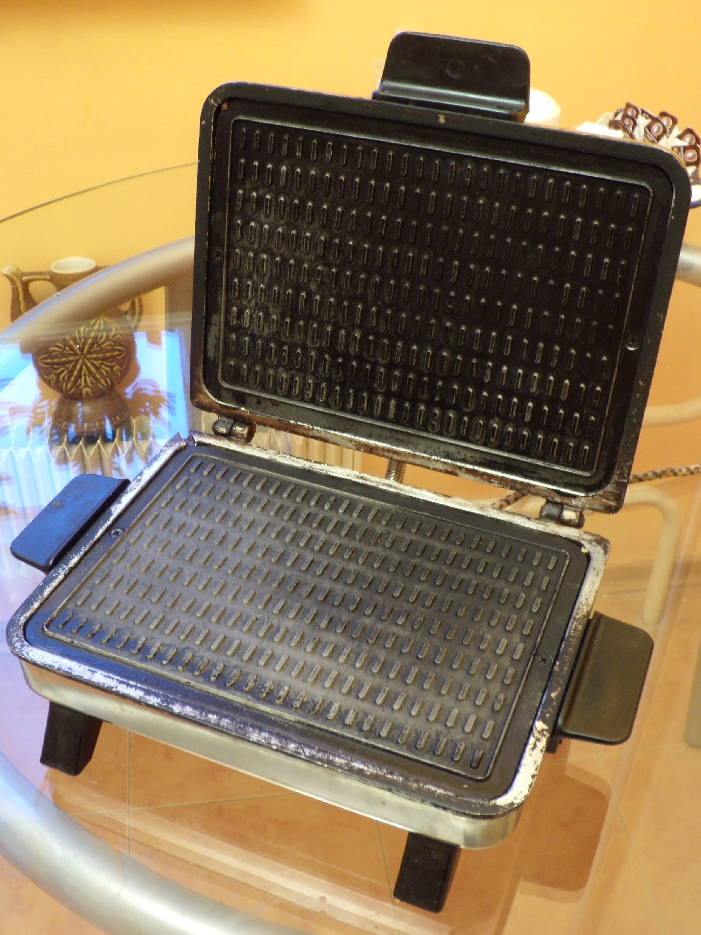 Waffle iron